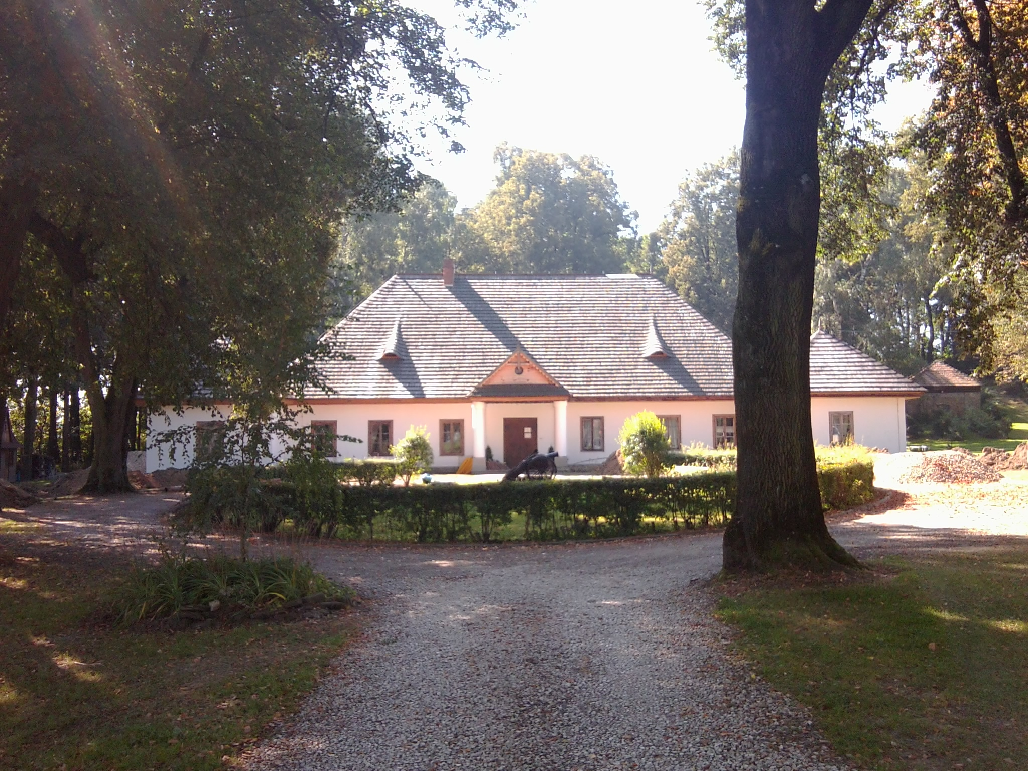 Dwór w Świdniku (powiat limanowski)